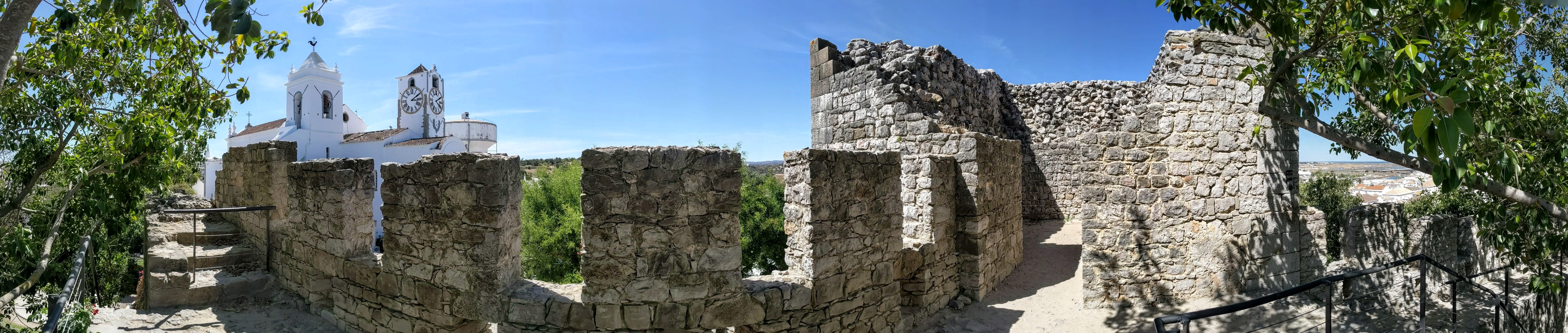 Pano from Castelo de Tavira (in Tavira, Portugal) with the church and tower of Igreja de Santa Maria do Castelo